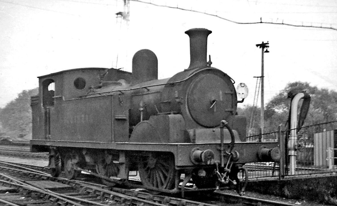 Unique SR locomotive at Winchester (City) station. SR No. 1 is an ex-LSW Adams class T1 0-4-4T, built 4/1894 and withdrawn 7/49 - without ever becoming No. 30001; the class was built for London suburban work, but electrification made them redundant. No. 1 here was probably used on the Mid-Hants line.